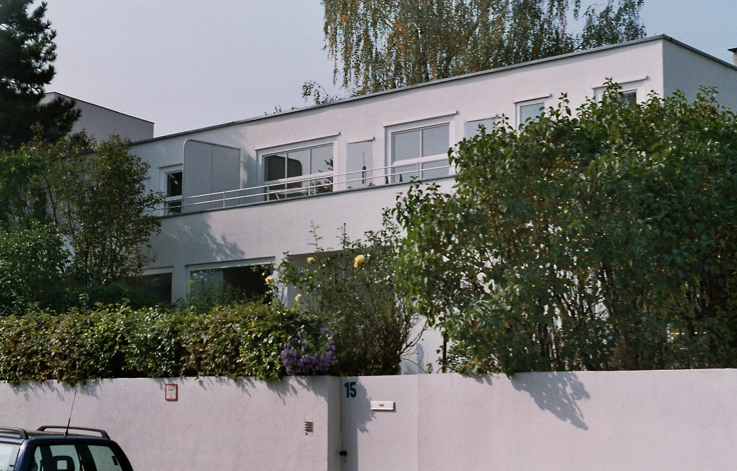 Stuttgart, Weissenhofsiedlung, House by Josef Frank. 1927, international style.